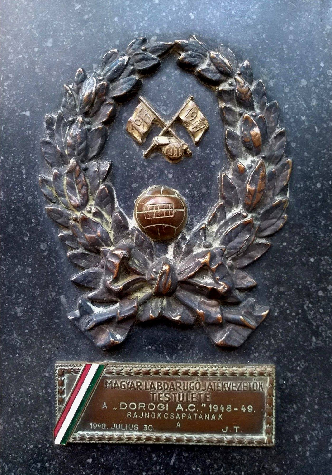 Honor prize from Association of referees to champion team of Dorog in 1949